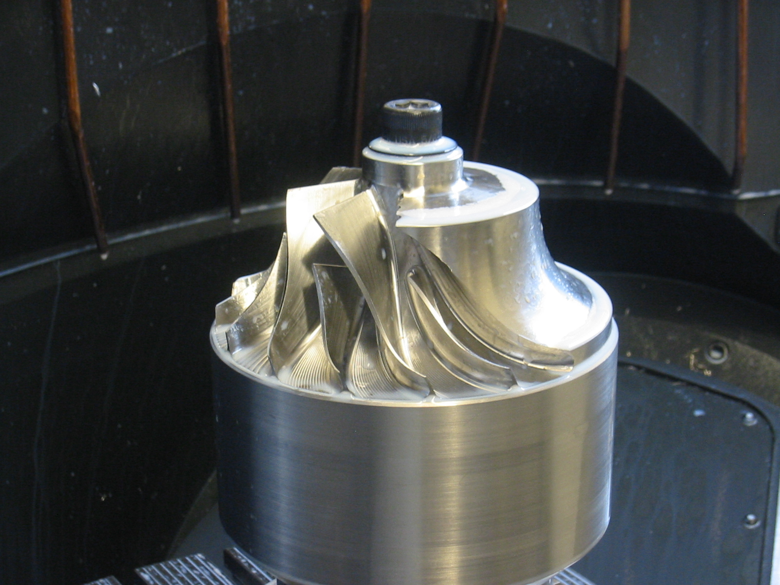 STEP-NC impeller test part cut from Ti6Al4V at the October 1-2, 2008, STEP Manufacturing meeting.